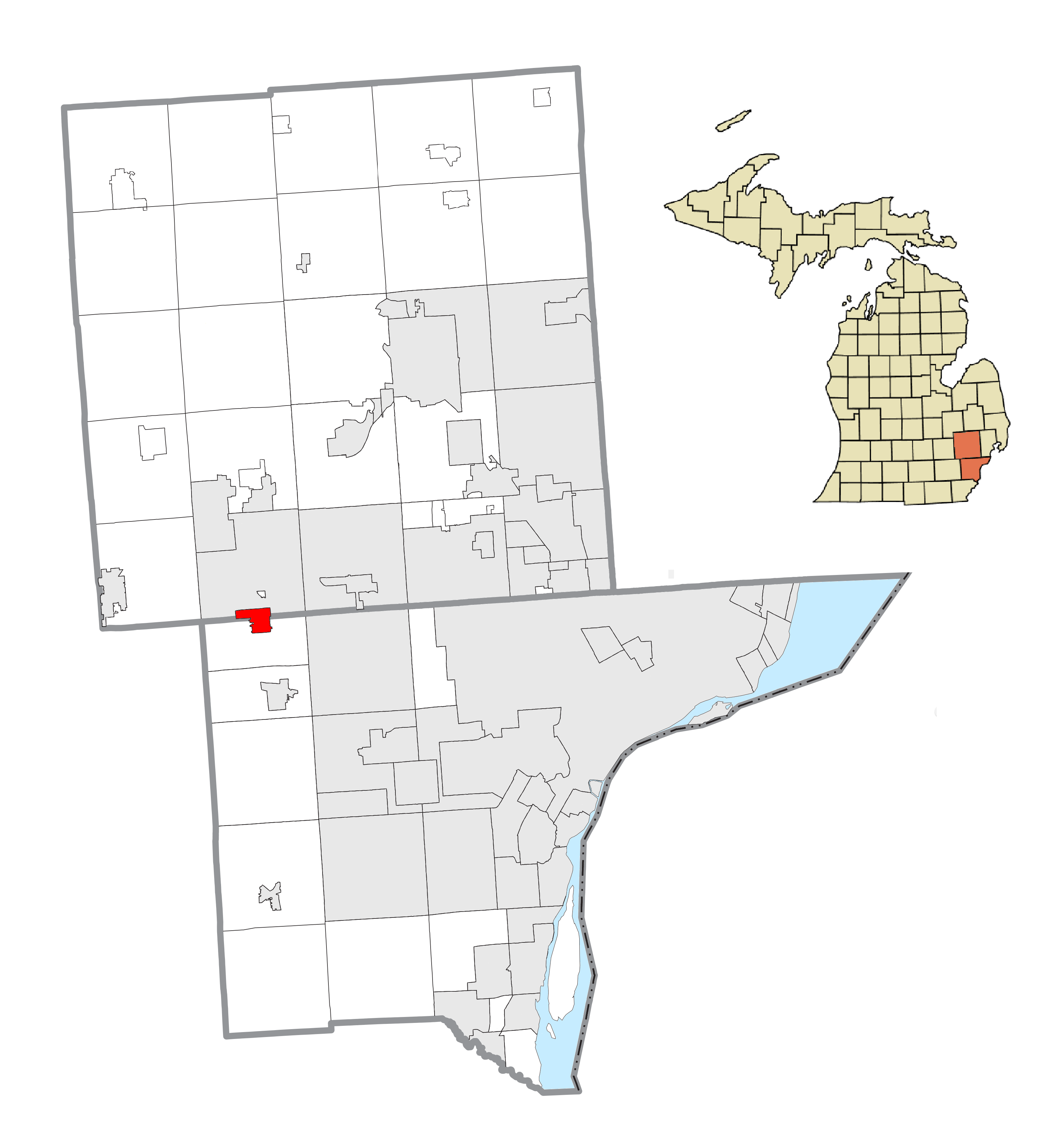 Northville, MI